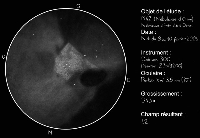 Sketch of the core of the Orion Nebula Dessin du cœur de la Nébuleuse d'Orion